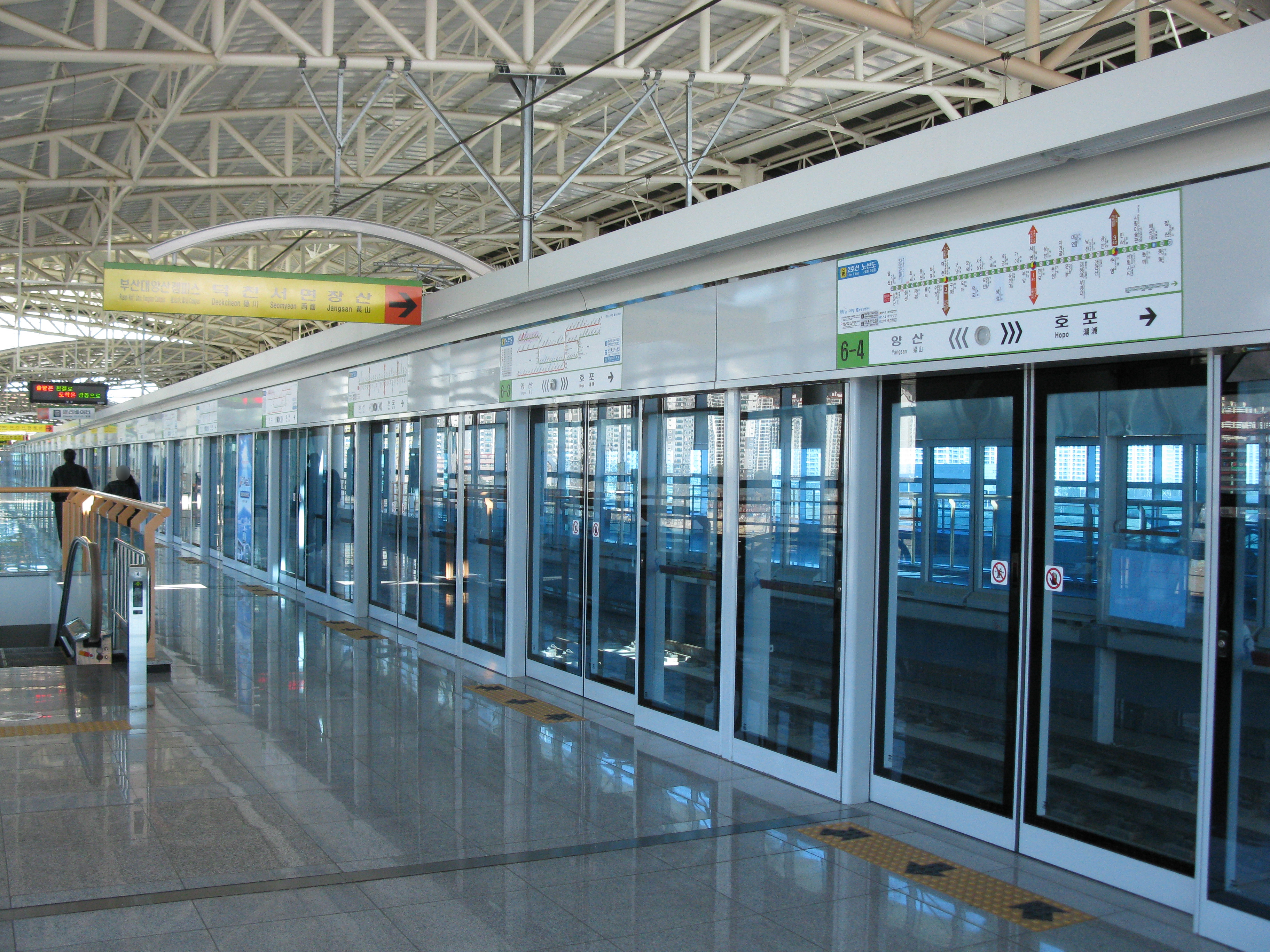 The platform at Namyangsan Station on the Busan Subway Line 2 in Yangsan city, Gyeongsangnam-do, Republic of Korea(South Korea)